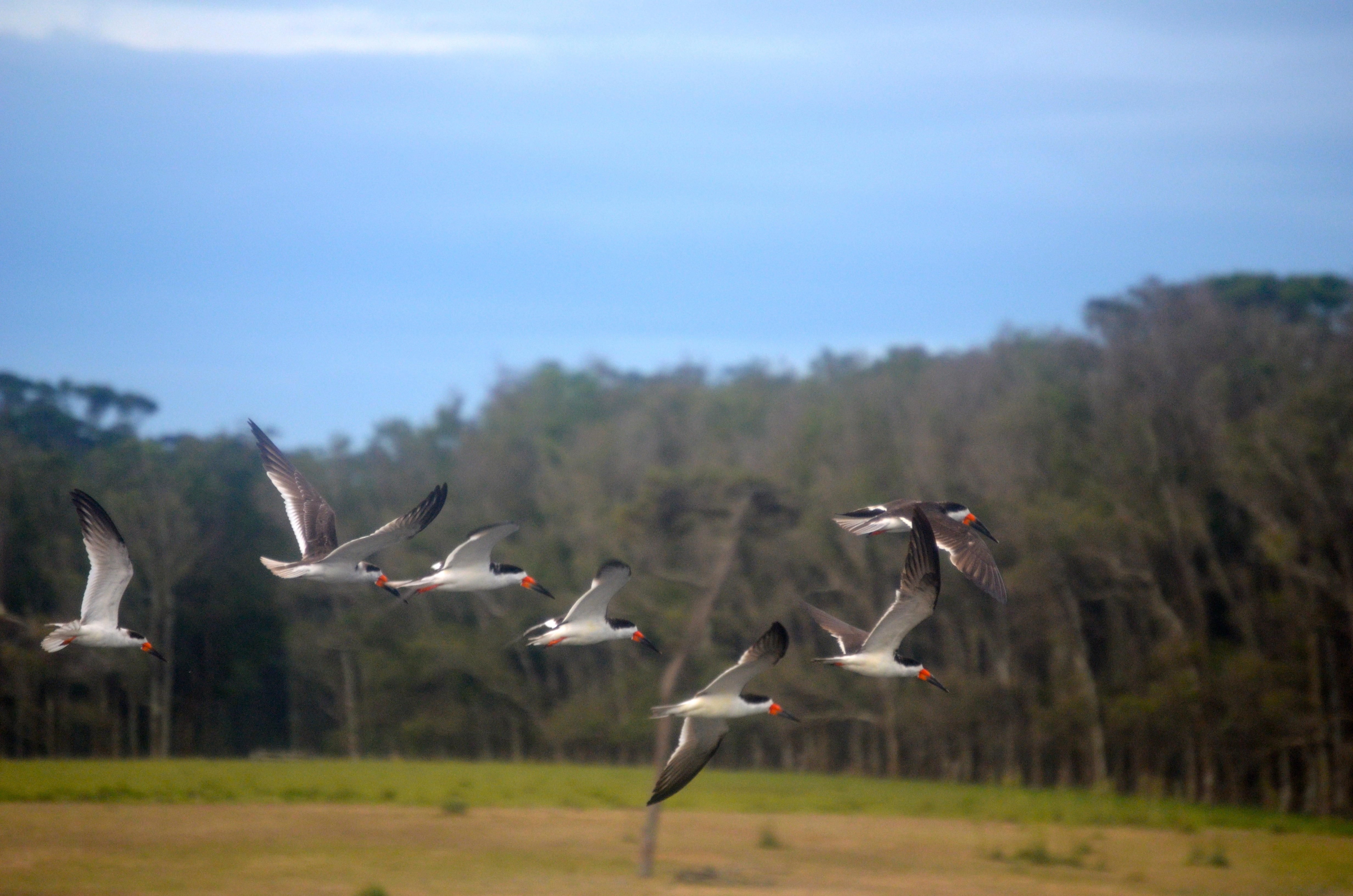 Osteros Rynchops niger in flight